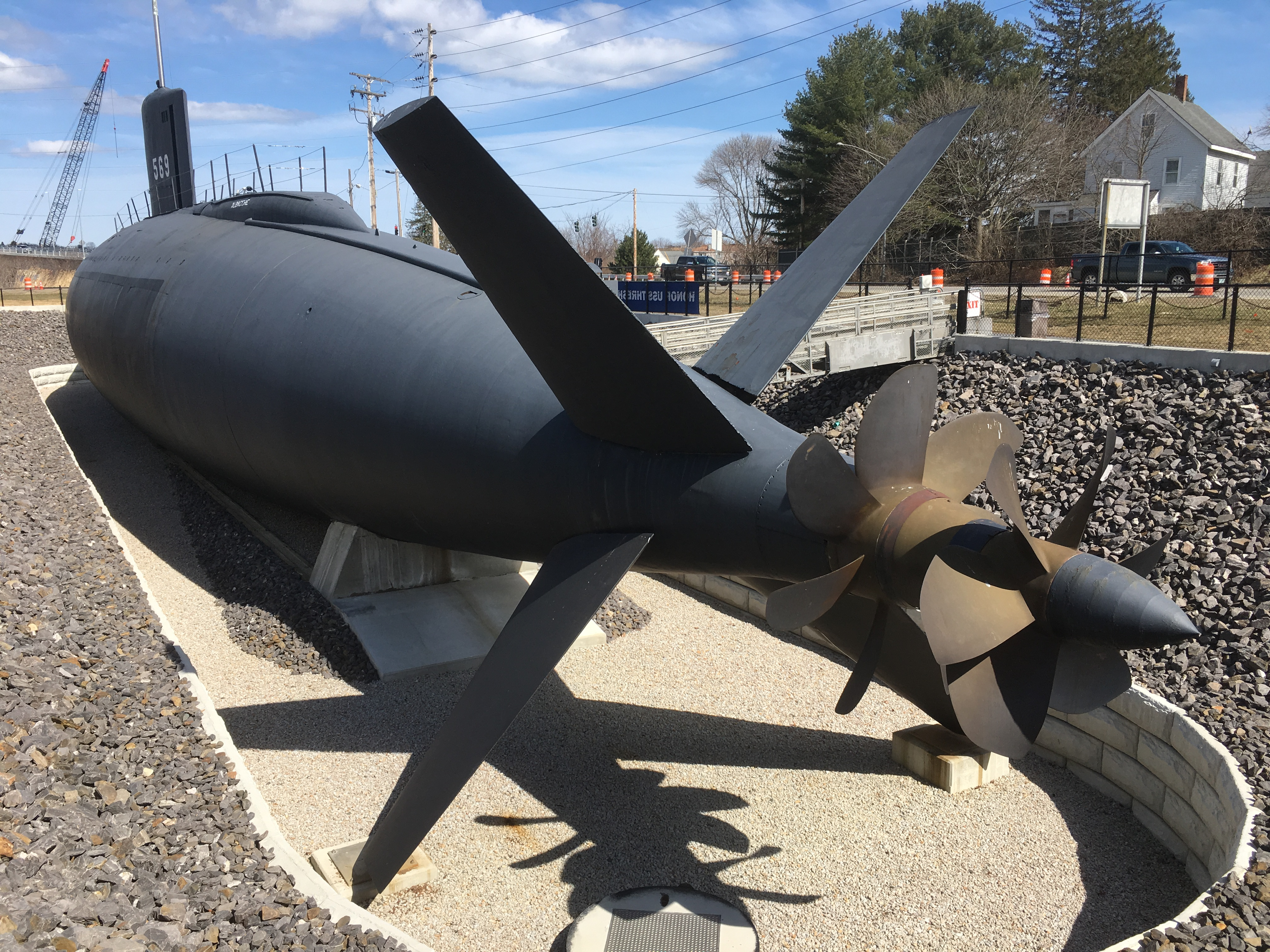 USS Albacore (AGSS-569) submarine active in the US Navy from 1953 to 1972, used for research. Photographed in April 2018 at its permanent display site in Portsmouth, New Hampshire.